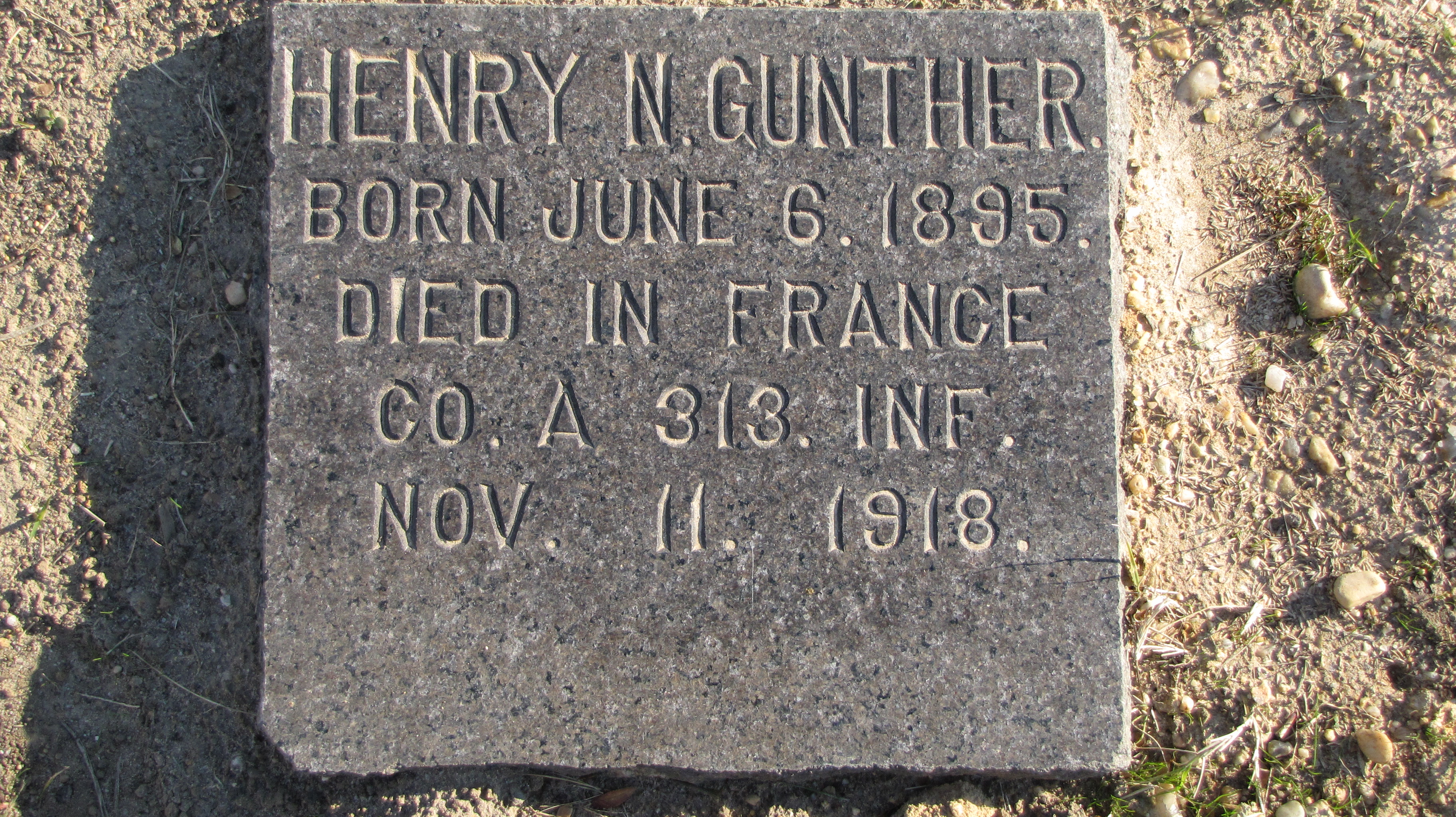 Gravestone of Henry N Gunther, last casualty of World War I